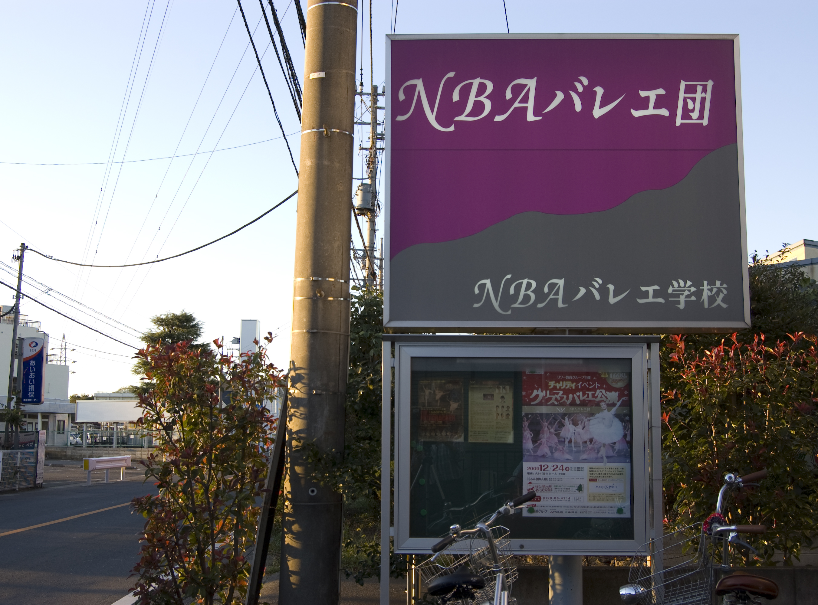 NBA Ballet Company in Tokorozawa, Saitama pref., Japan.